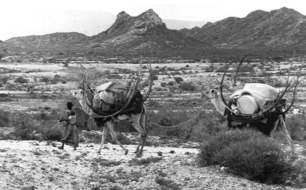 Camel caravan transporting goods in northern Somalia between Hargeysa and Berbera.